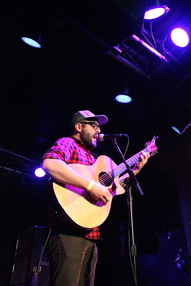 Evan Weiss. Into It. Over It. Tour with Matt Pryor and James Dewees. Ottobar. Baltimore, Maryland. January 20, 2013.